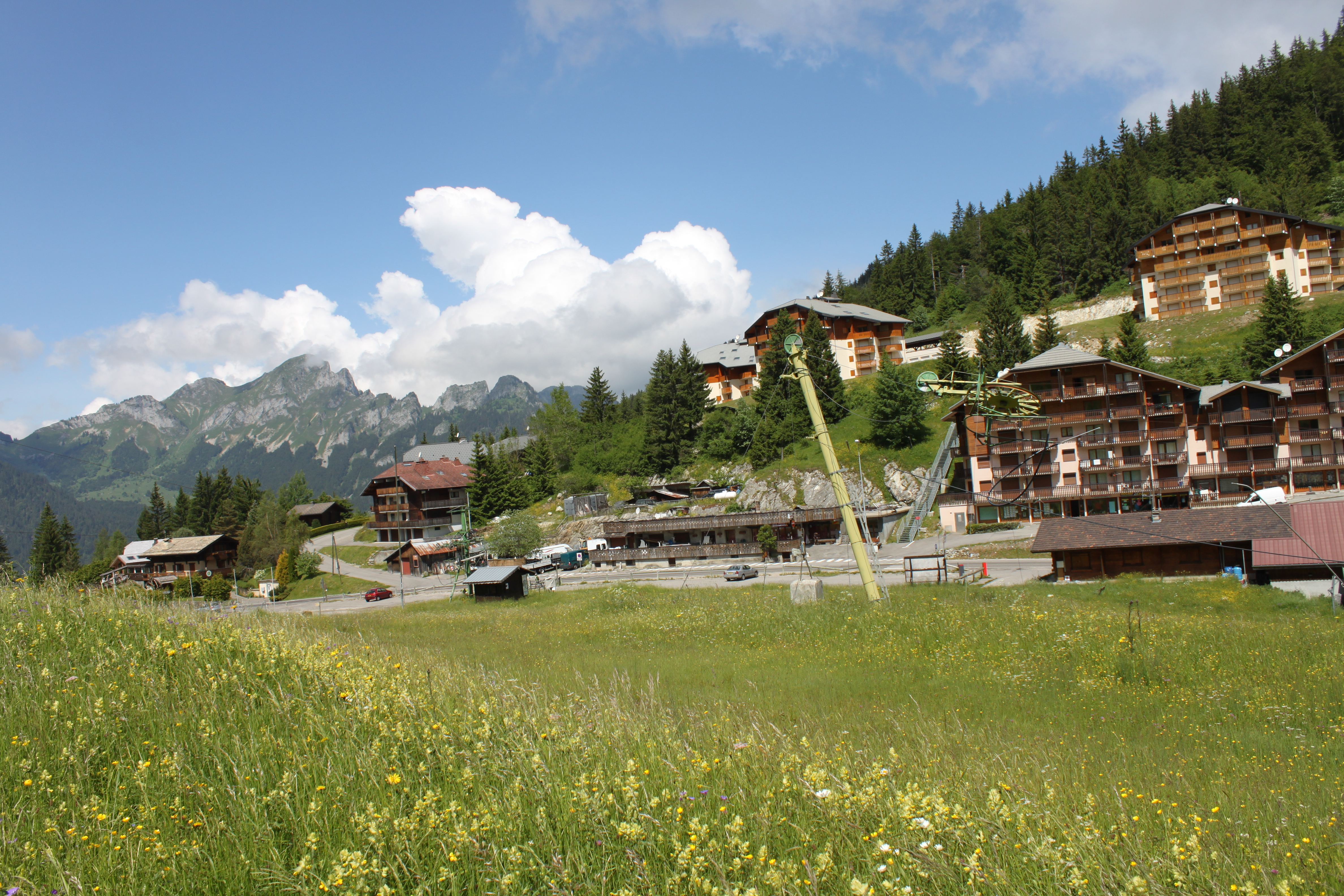 Col du Corbier, Haute-Savoie, France,restaurant "Chez Michel et Mado"